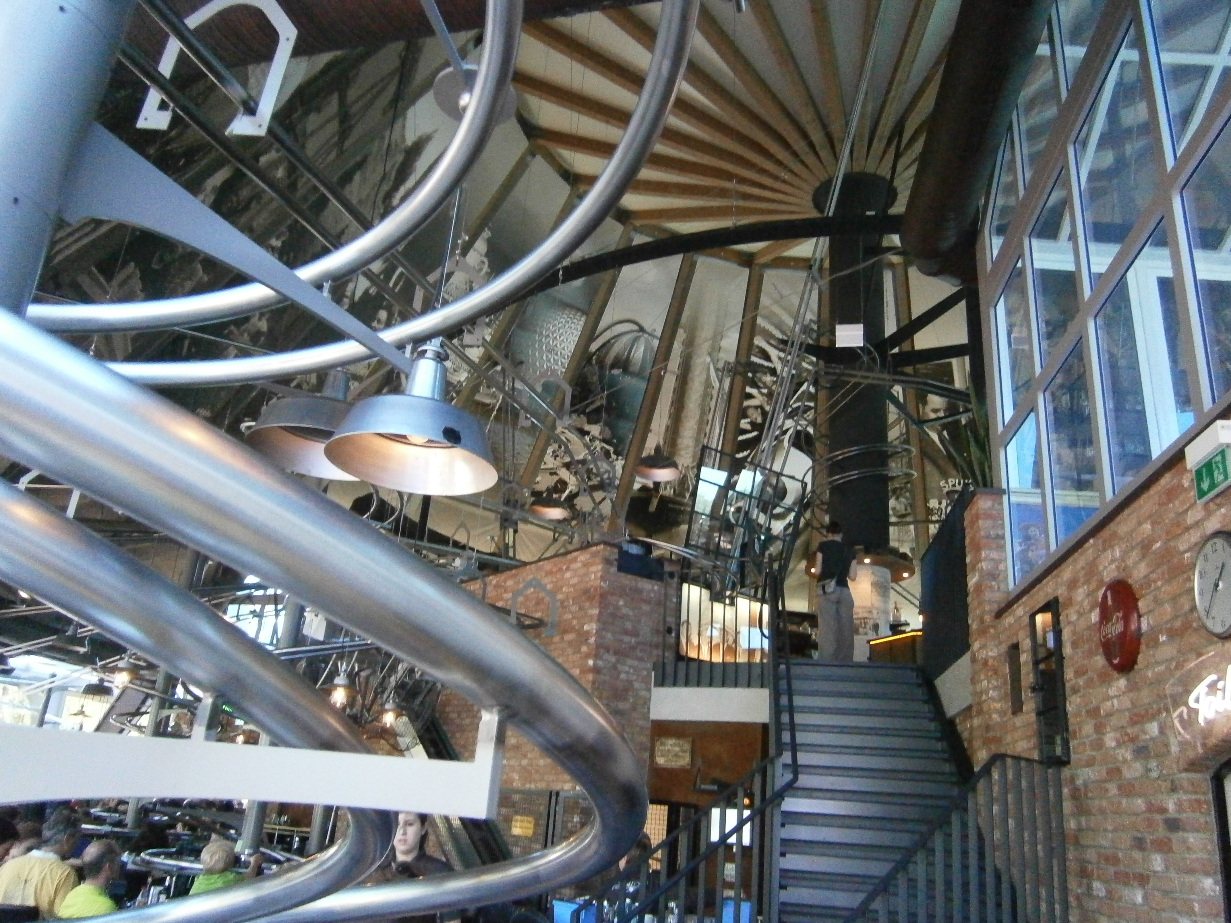 FoodLoop Restaurant in Europa-Park Rust (Germany)